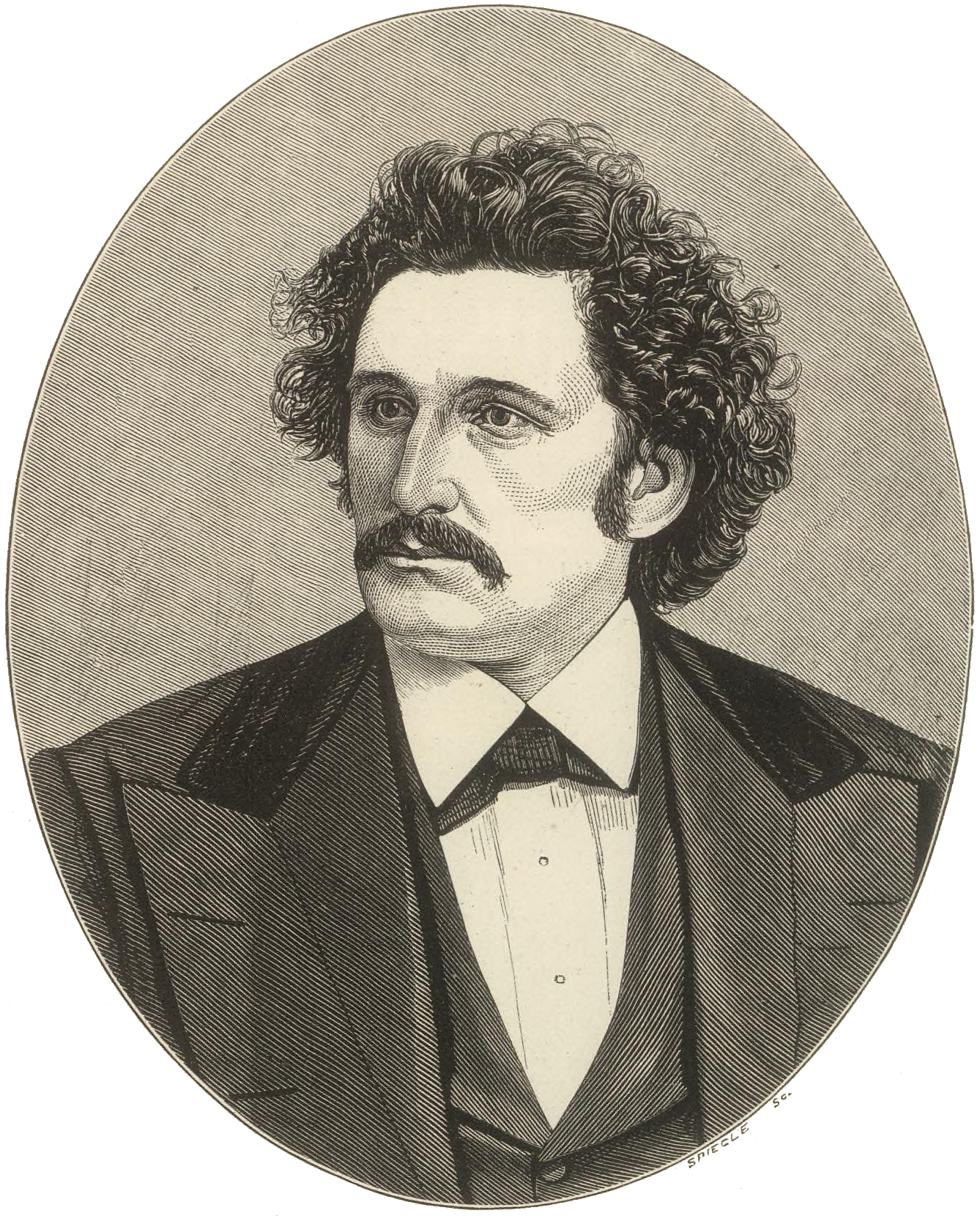 C. L. Blood